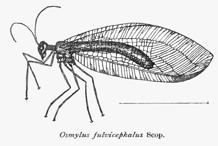 Osmylus fulvicephalus, Osmylidae, Neuroptera